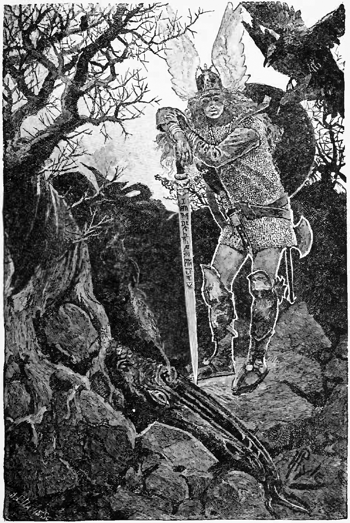 Captioned as "The Death of Fafnir". Siegfried kills the dragon Fafnir.